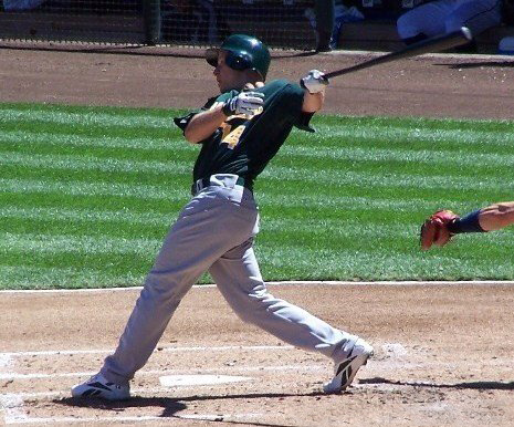 Mark Ellis bats for the Oakland Athletics in 2007